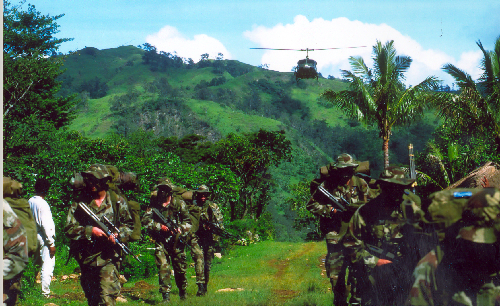 Irish Army infantry patrol in East Timor as part of the United Nations Transitional Administration in East Timor (UNTAET)